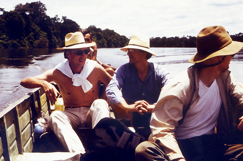 Nikolaus A. Nessler, Antony Gormley, Bill Woodrow (f.l.t.r.) on the Rio Madeira River at Porto Velho, Rondonia, Brasilia, during the art project ARTE AMAZONAS, 1992